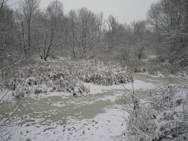 The Potyondi-swamp in winter